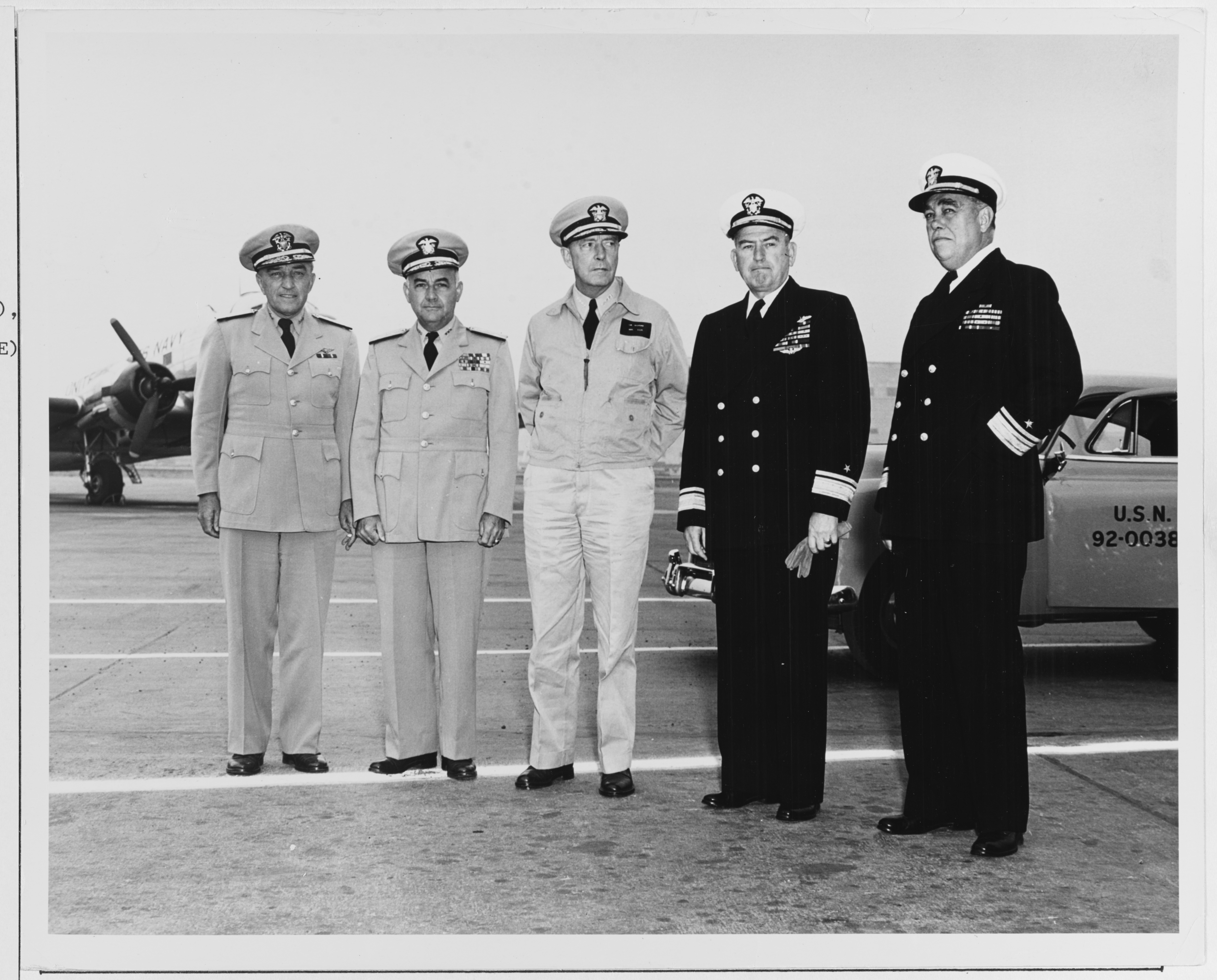 Transient Flag Officers at Moffett Field, 28 July 1951. They are (from left to right): Vice Admiral Thomas L. Sprague, Commander Air Force, Pacific Fleet; Vice Admiral Arthur D. Struble, Commander, First Fleet; Admiral Arthur W. Radford, Commander in Chief, Pacific and Pacific Fleet; Rear Admiral Bertram J. Rodgers, Commander, 12th Naval District; and Rear Admiral Thomas R. Cooley, Deputy Commander, Western Sea Frontier. Collection of Fleet Admiral Chester W. Nimitz. U.S. Naval History and Heritage Command Photograph.